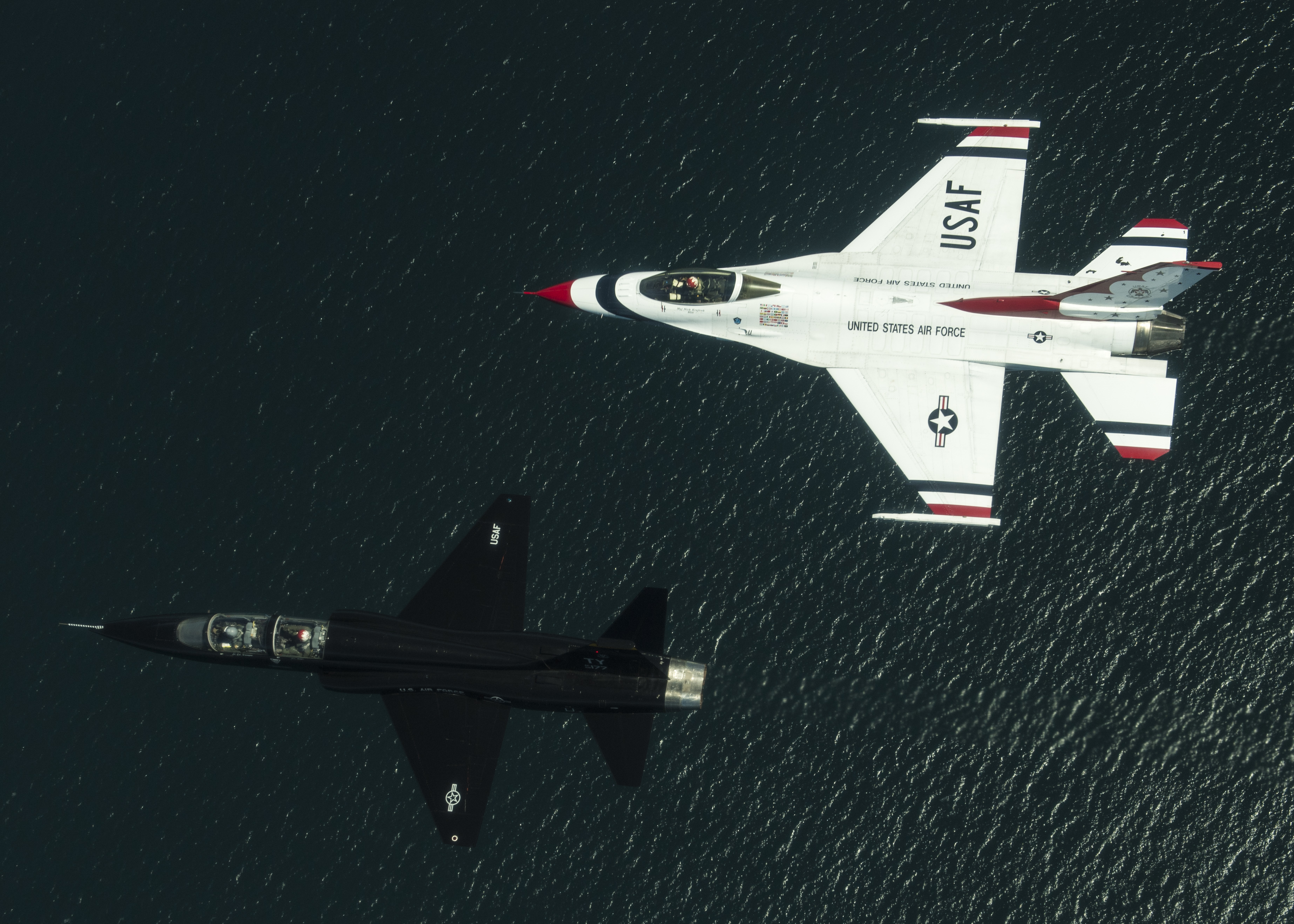 Maj. Nick Krajicek, a T-38 Talon pilot, flies in a two-ship formation with retired Lt. Col. Dale Cooke, a former T-38 pilot, over Tyndall Air Force Base and Panama City, Fla., April 21, 2017. The T-38 in the formation was the same jet Cooke flew during his tenure on the team. The Thunderbirds transitioned from the T-38 to the F-16 in 1982. (U.S. Air Force Photo/Tech. Sgt. Christopher Boitz)